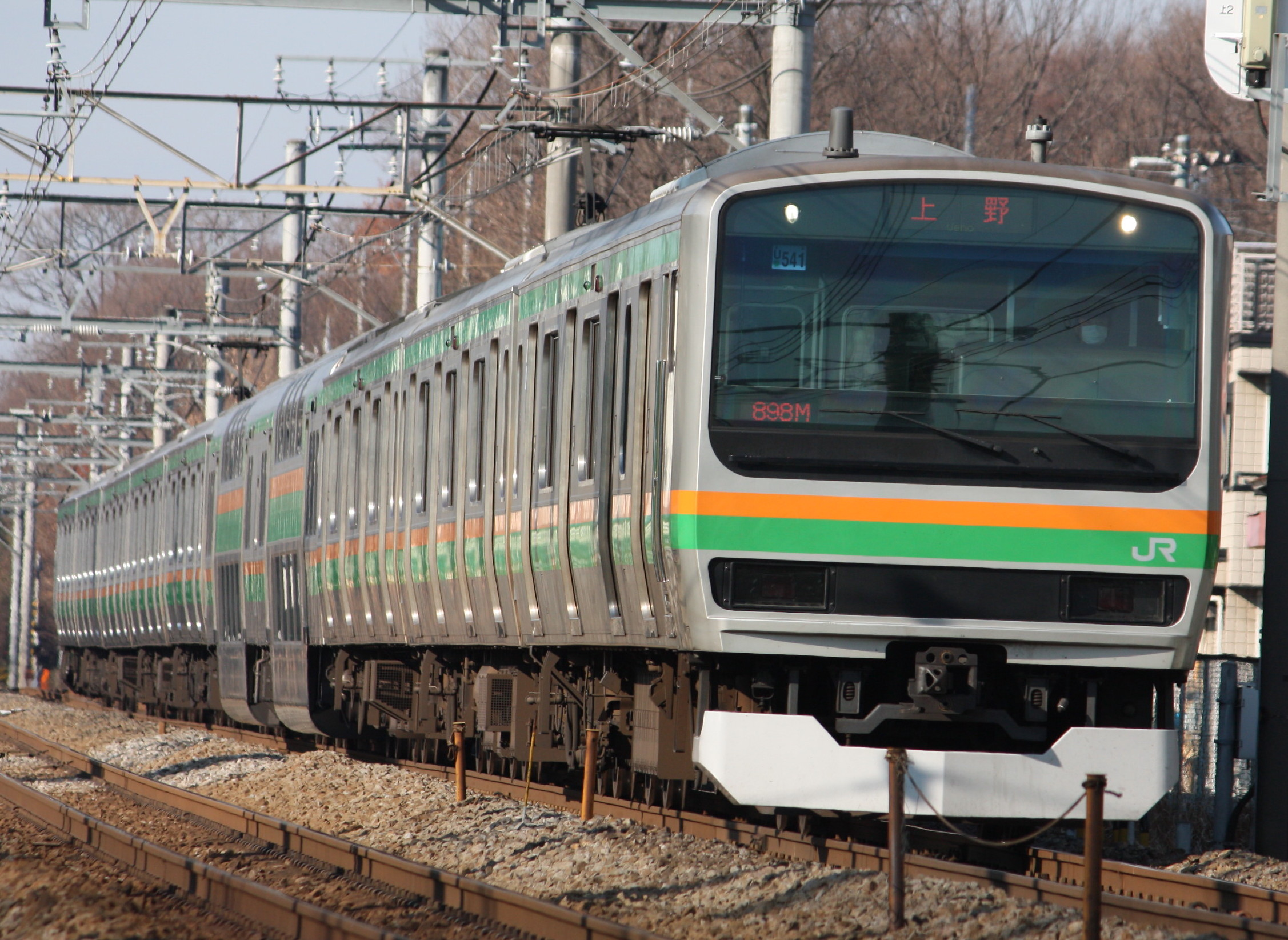 JR East E231-1000 serving Takasaki Line